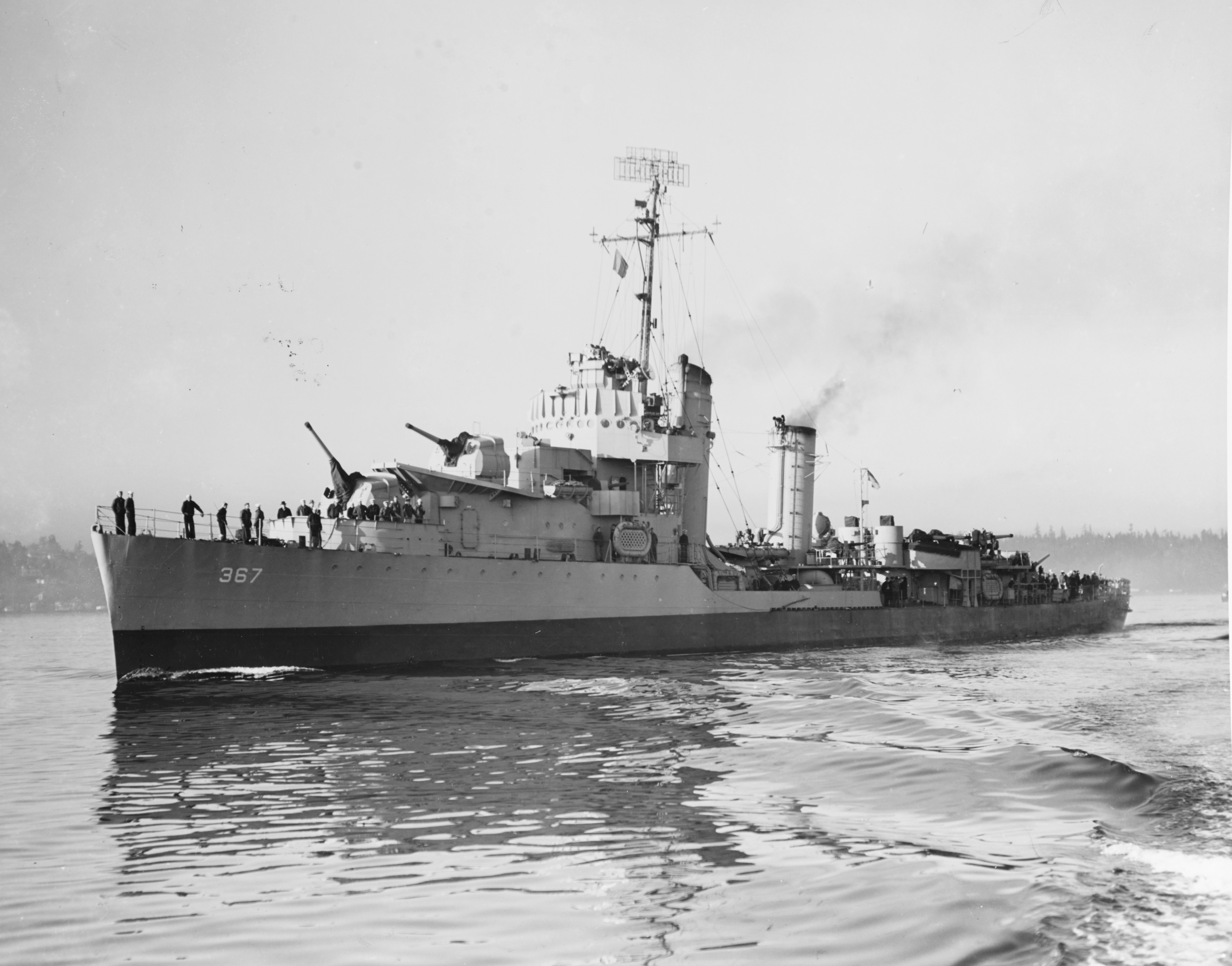 USS Lamson (DD-367) off the Puget Sound Navy Yard, Bremerton, Washington, 2 April 1945. Note that her waist torpedo tubes have been removed and a pair of 40 mm quad gun mounts fitted to increase the ship's anti-aircraft firepower. Removed caption read: Photo # 19-N-80819 USS Lamson underway off the Puget Sound Navy Yard, 2 April 1945